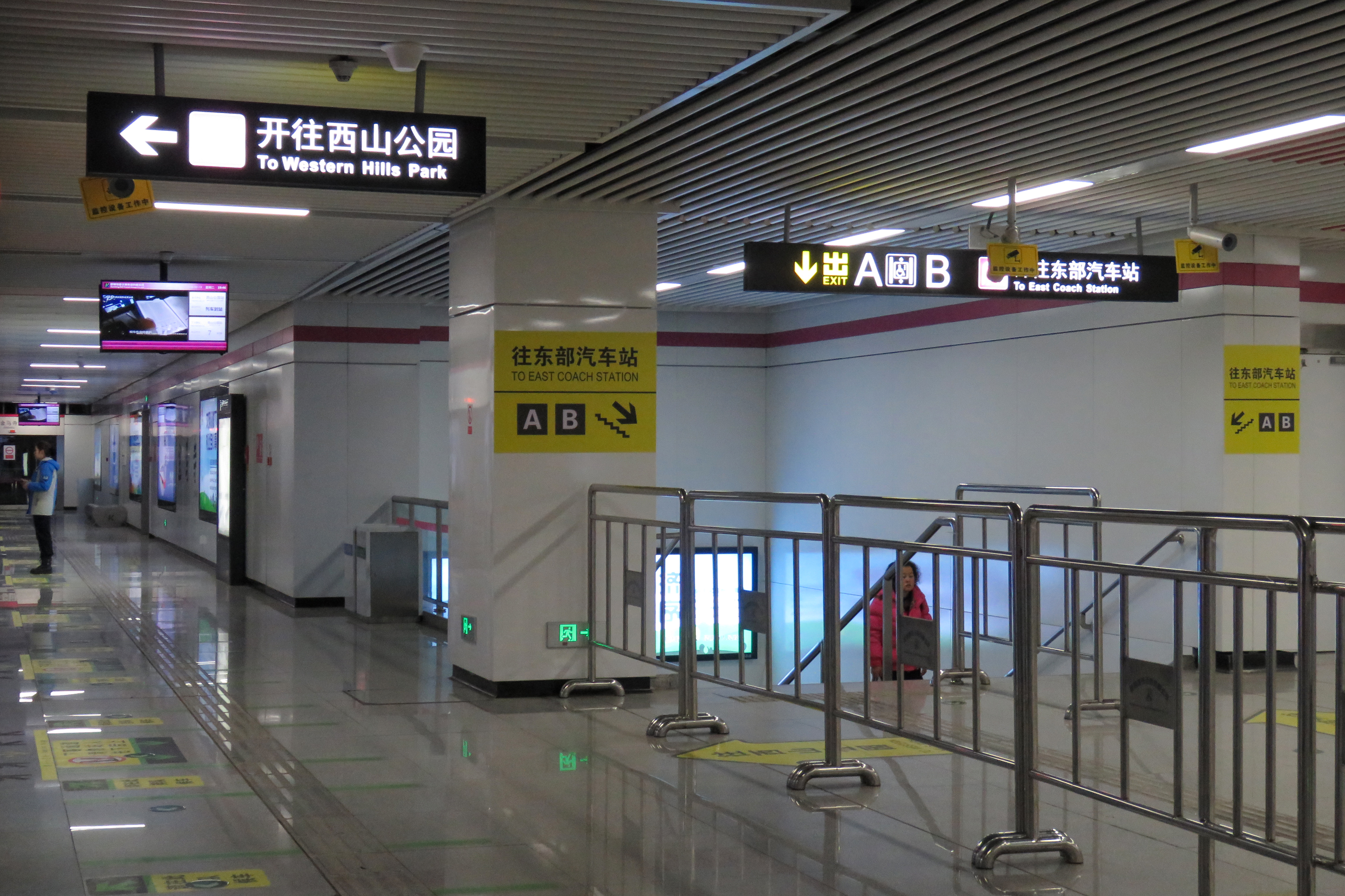 Its concourse and platform are on the same level.